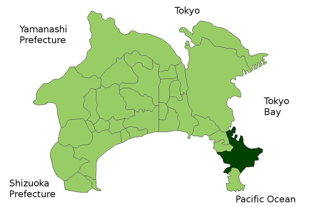 Location Map of Yokosuka in Kanagawa Prefecture, Japan